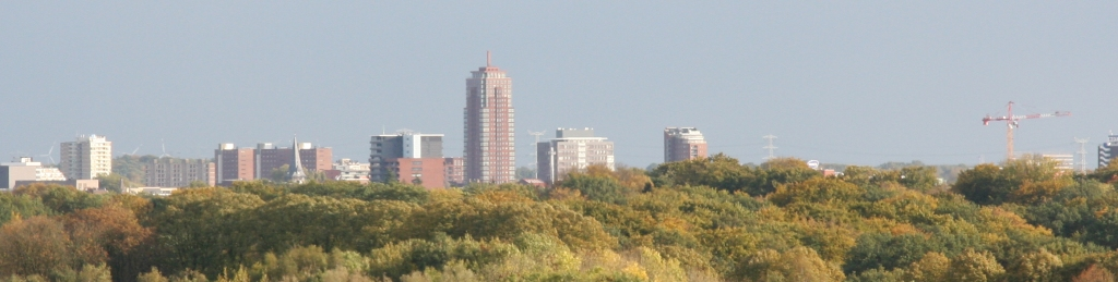 Skyline Enschede